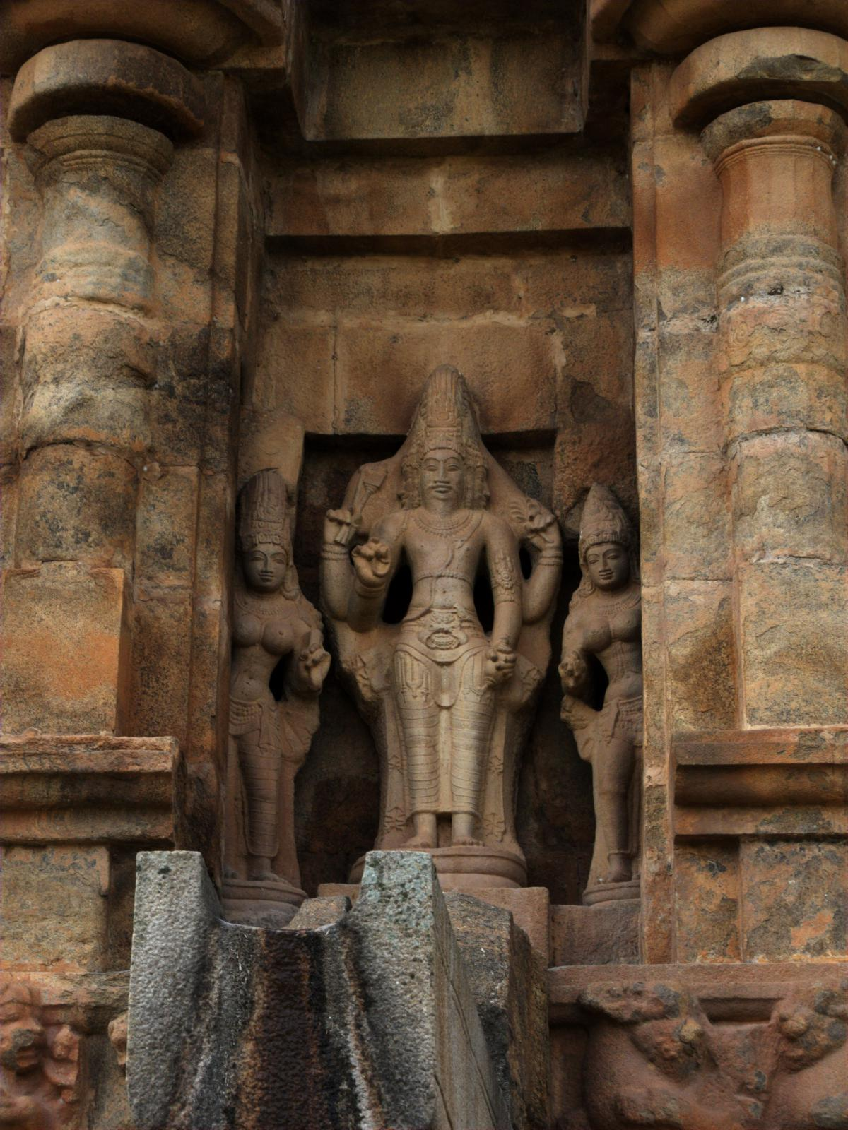 Brahma found in the Gangai-konda-choleshvaran temple